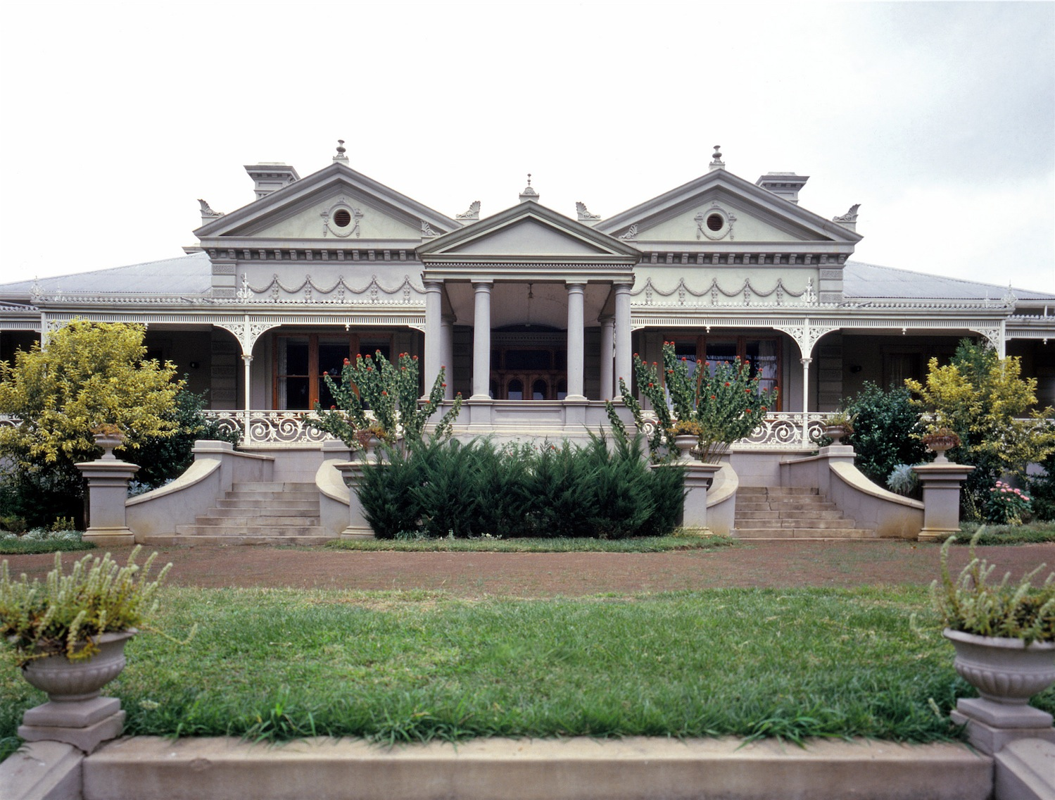 This media shows a South African Protected Site with SAHRA file reference 9/2/436/0066.